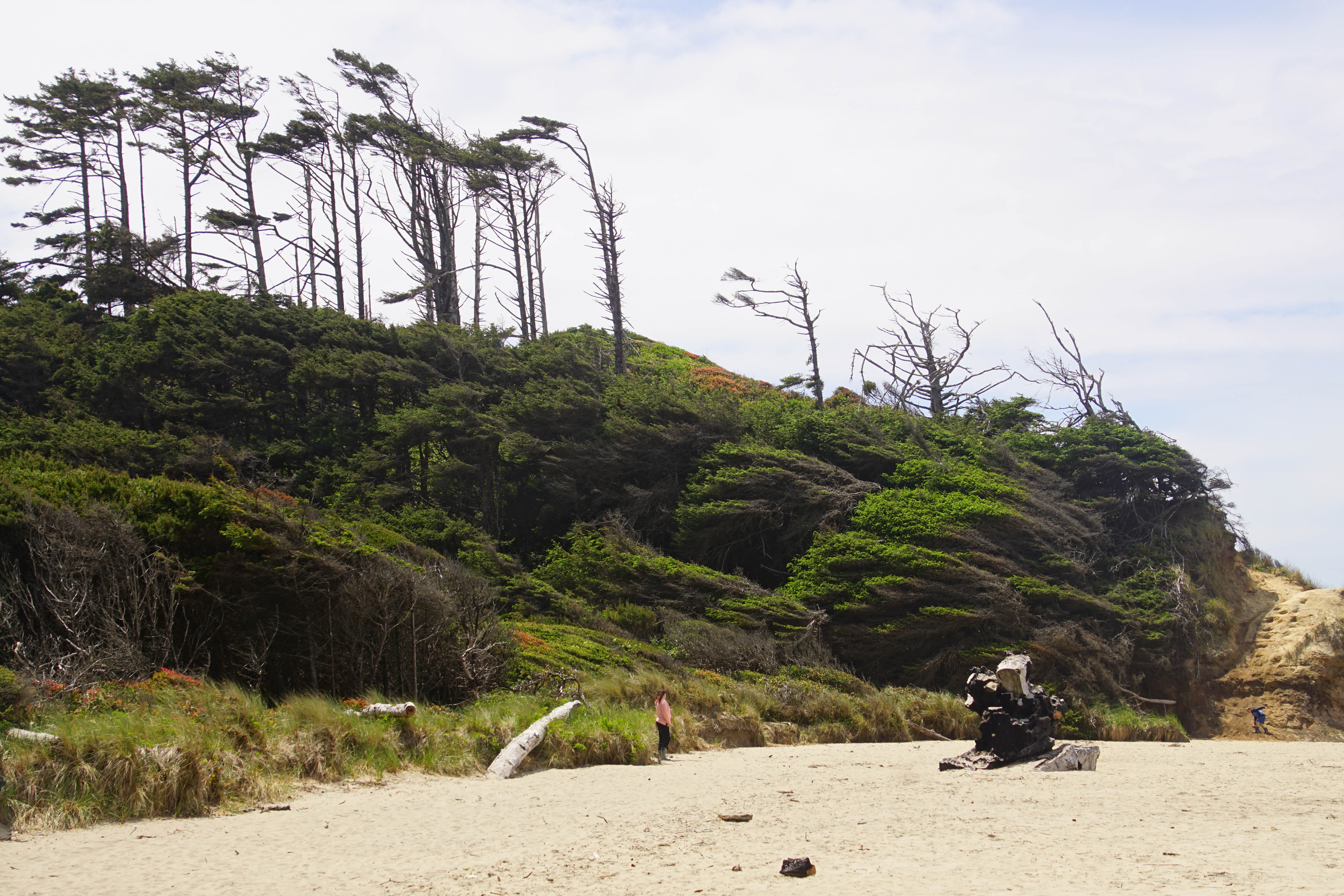 Silhouettes of wind sculpted Krumholz trees on eroded hill above Ona beach, Newport, Oregon